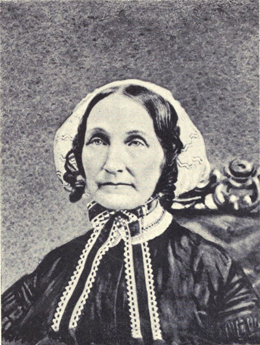 Mrs. Clarissa Lyman Richards (10 January 1794 - 3 October 1861), wife of William Richards (1793–1847),missionary.